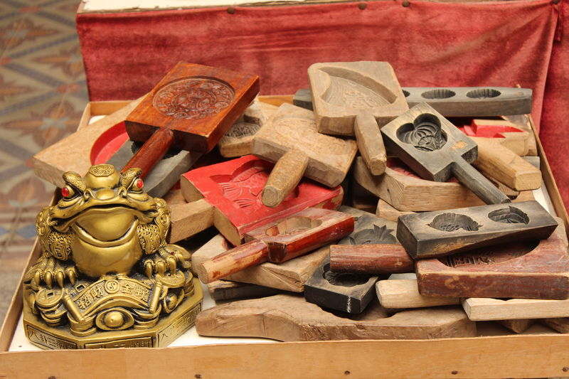 Tao kuish muuld